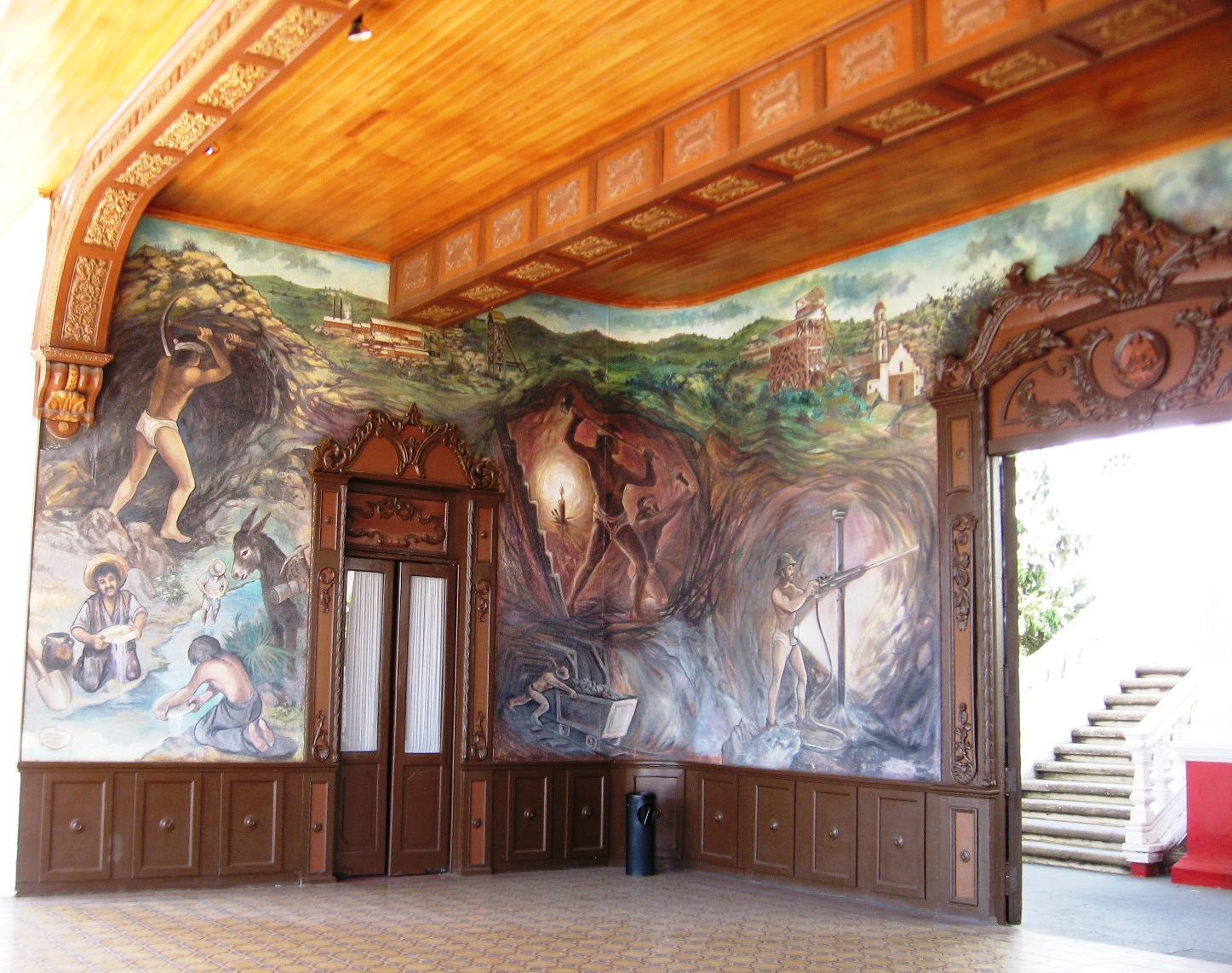 Left side of Mural entitled "El Genésis Minero" by Manuel De Rugama on the portico of the municipal palace of El Oro, Mexico State, Mexico